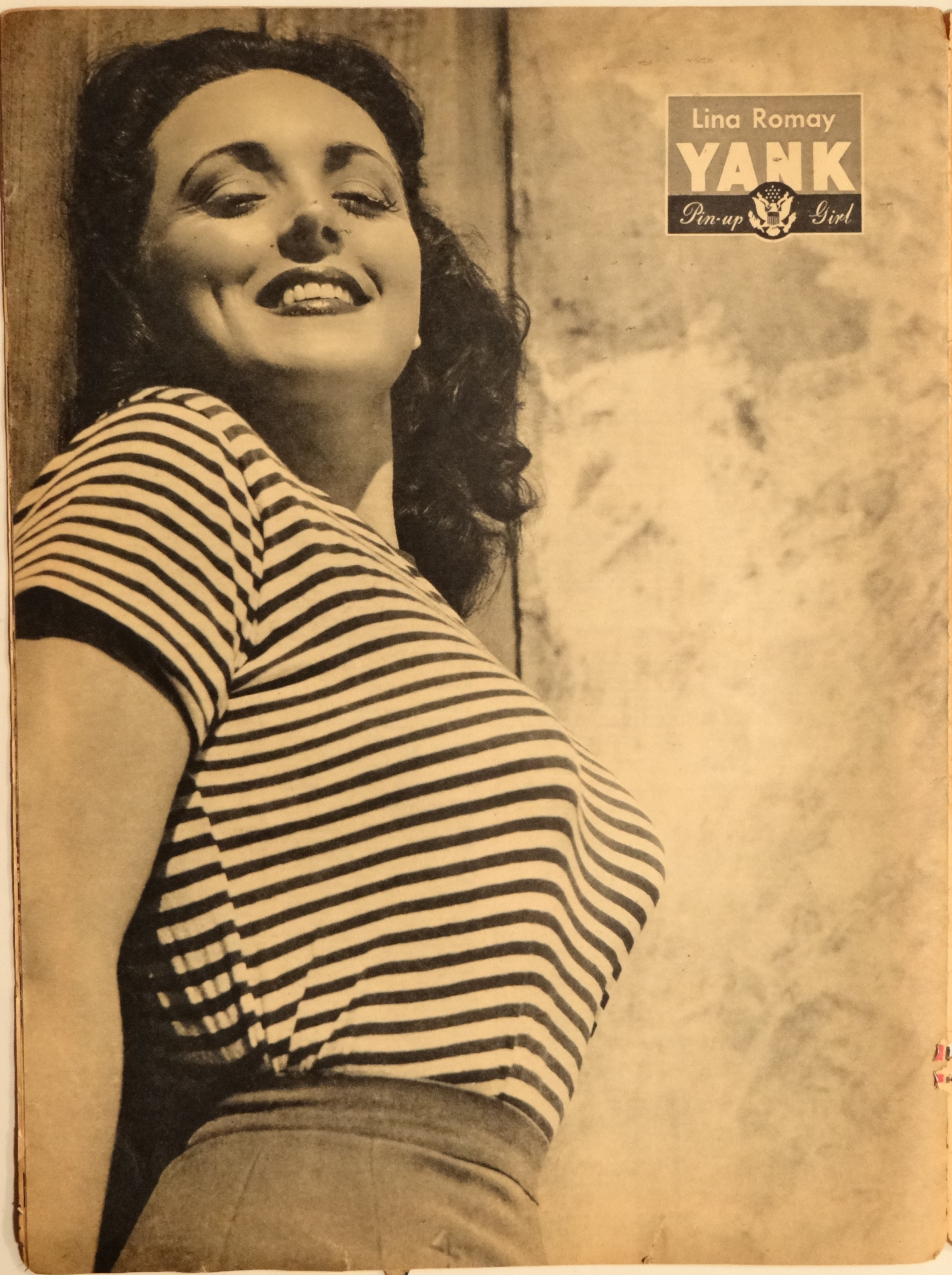 Lina Romay, pin-up from Yank, The Army Weekly, May 18, 1945